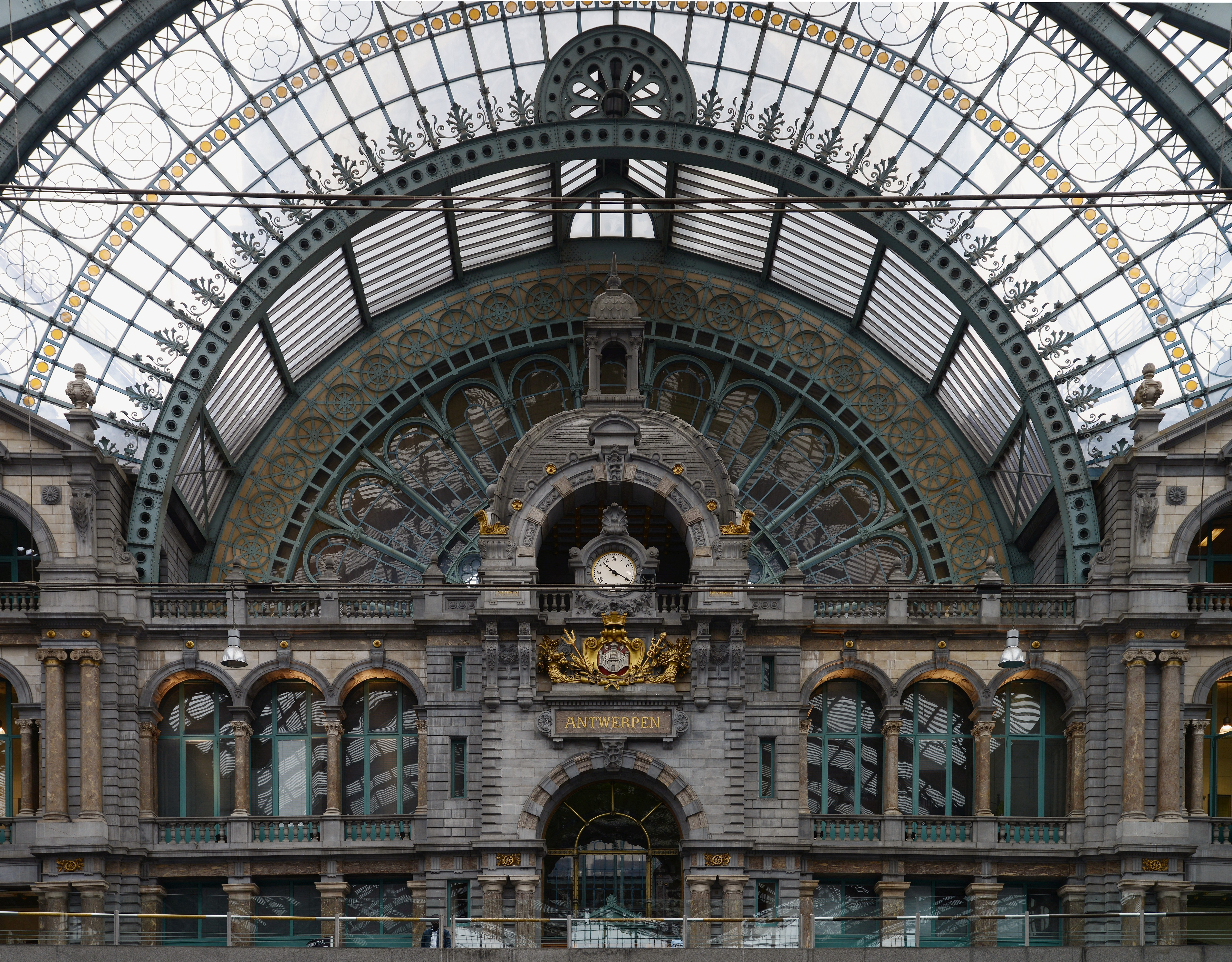 Antwerp railway station, interior